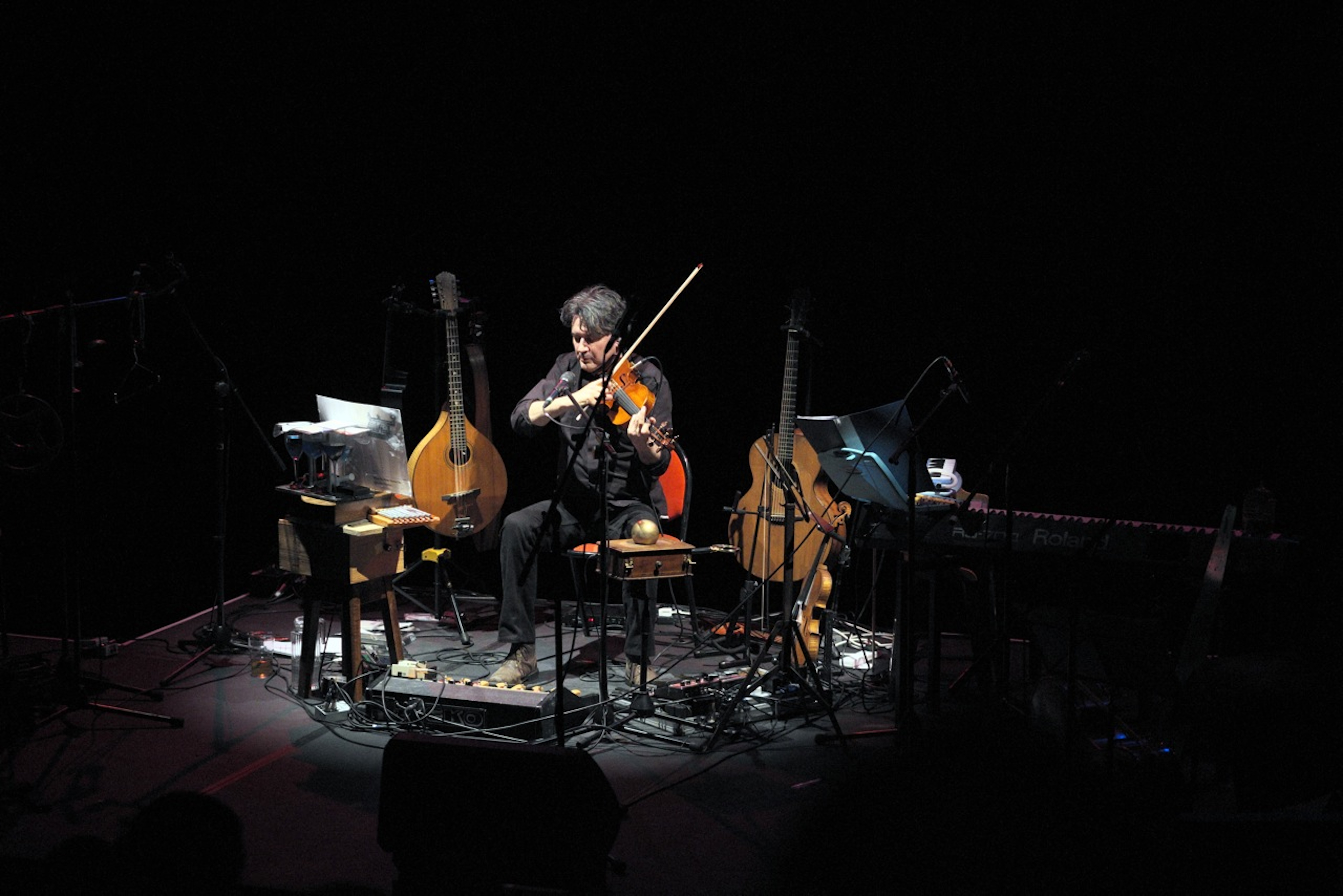 Nick Pynn at The Old Market, Brighton. Photo courtesy of Steve McNicholas